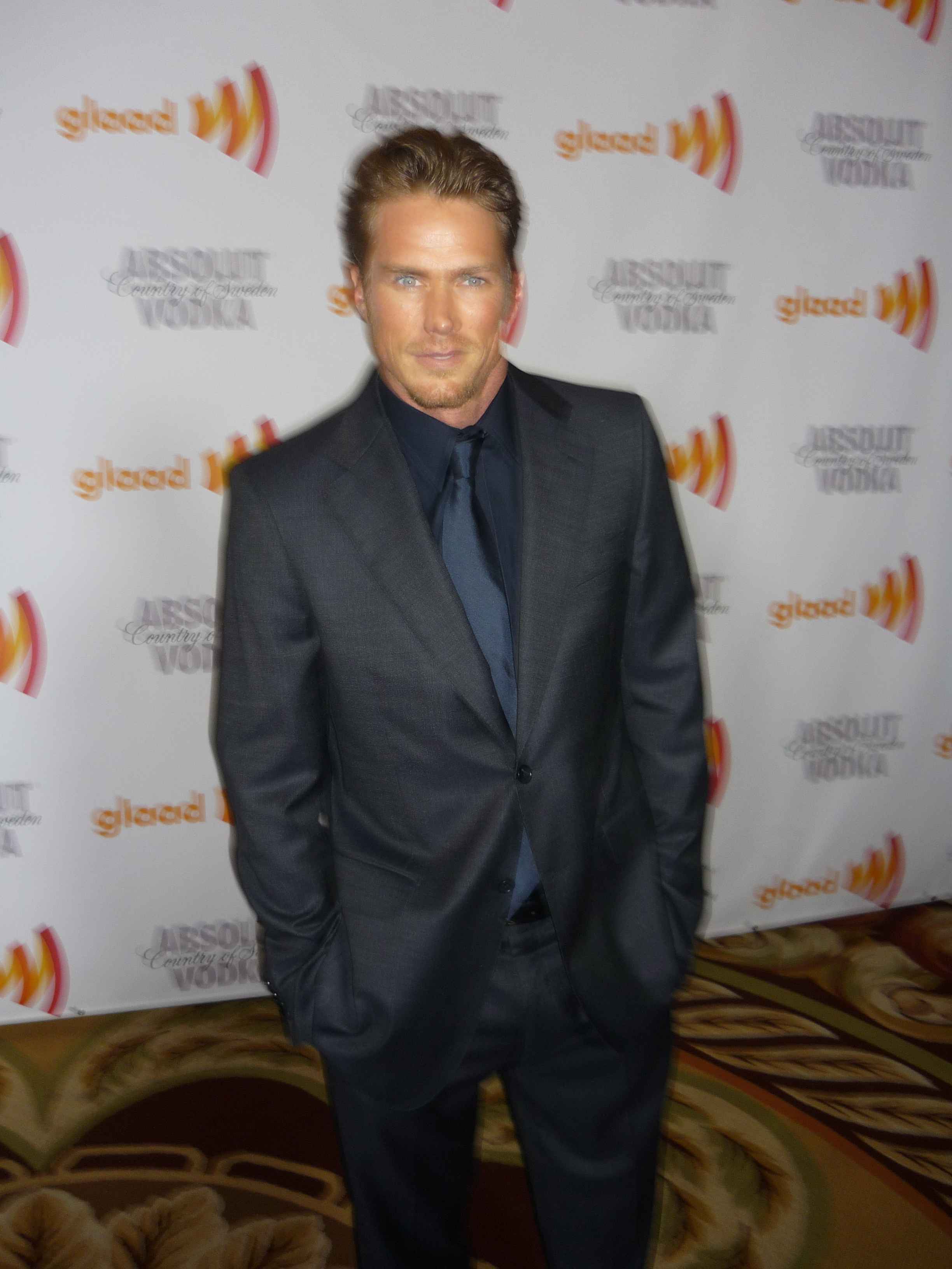 Actor Jason Lewis at 2010 GLAAD Media Awards.